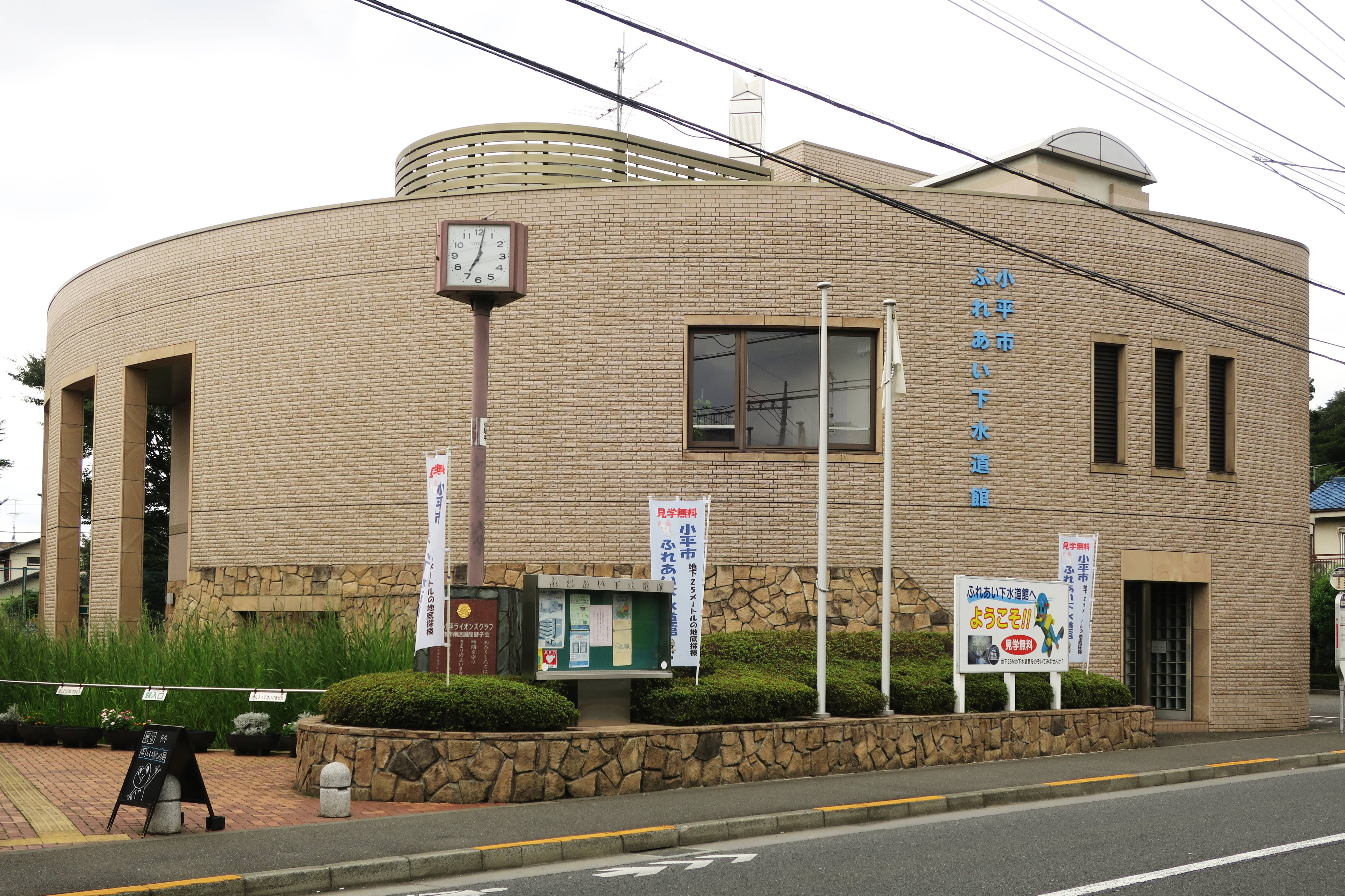 Fureai Sewerage Museum (Kodaira, Tokyo).